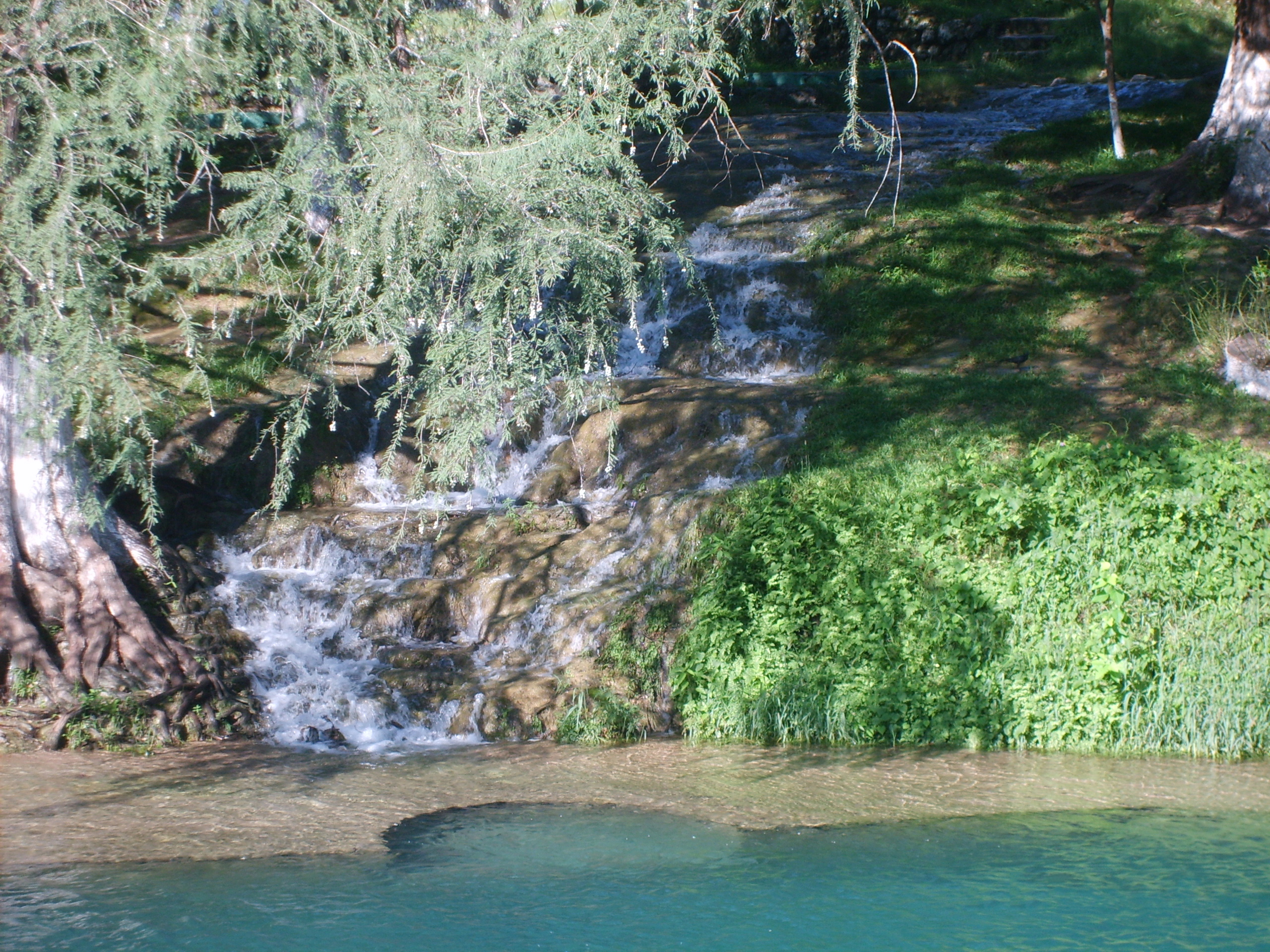 A picturesque waterfall in the Surroundings of Muzquiz, Coahuila. (Mexico